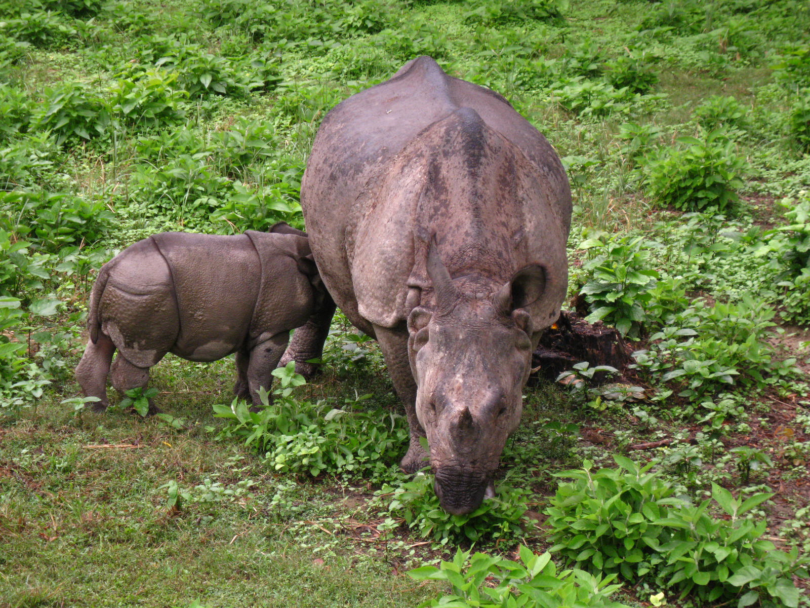 Chitwan National Park of Nepal.